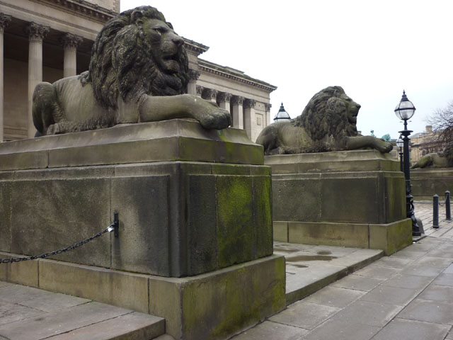 Stone lions guarding the Plateau, St George's Hall I like the Scouse lions and I also like the London lions But which is best? There's only one way to find out .......... FIGHT!!!! (cf Harry Hill's TV Burp)